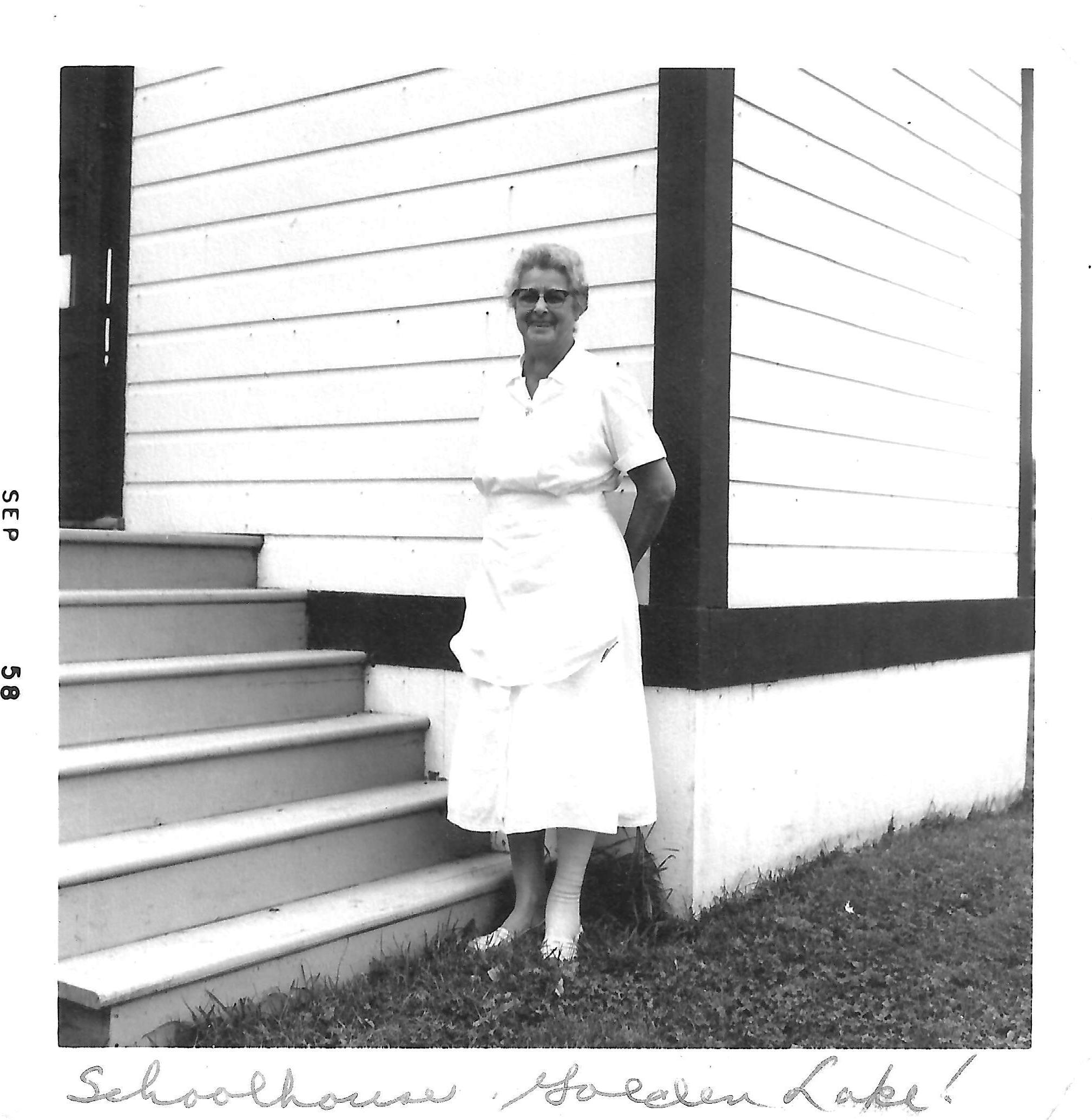 Photo of Sarah Lavalley at Golden Lake schoolhouse in September of 1956.